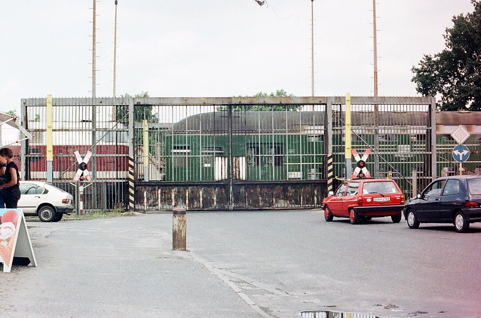 The so-called Elefantentor (Elephants' Gate) in Staaken, Berlin, here closed, was once part of the barrier and fences which stretched along the rail tracks between the actual Berlin Wall between East and West Staaken and the East German border crossing control station of Staaken. From the point in the Berlin Wall were the tracks left West Berlin's Staaken into East German Staaken the barriers turned inwards East Germany along the tracks up to the control station of East German Staaken. However, in the course of the then Neue Straße (now: Am alten Gaswerk), south of the tracks, and the Oberdorfer Steig, north of the tracks, there was a railway crossing passing the tracks and the adjacent barrier fences. The two huge sliding gates in the course of barrier fences along both sides of the tracks were nicknamed Elephants' Gate by the Staakeners. After the removal of most of the barriers after 1989 the Elephants' Gate remained, since it also functioned as railway gate at this level crossing. After 1996 the level crossing and the control station were removed. Today there is only a pedestrain underpass at this place.